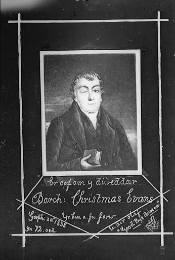 1 negative : glass, wet collodion, b&w ; 11 x 16.5 cm.